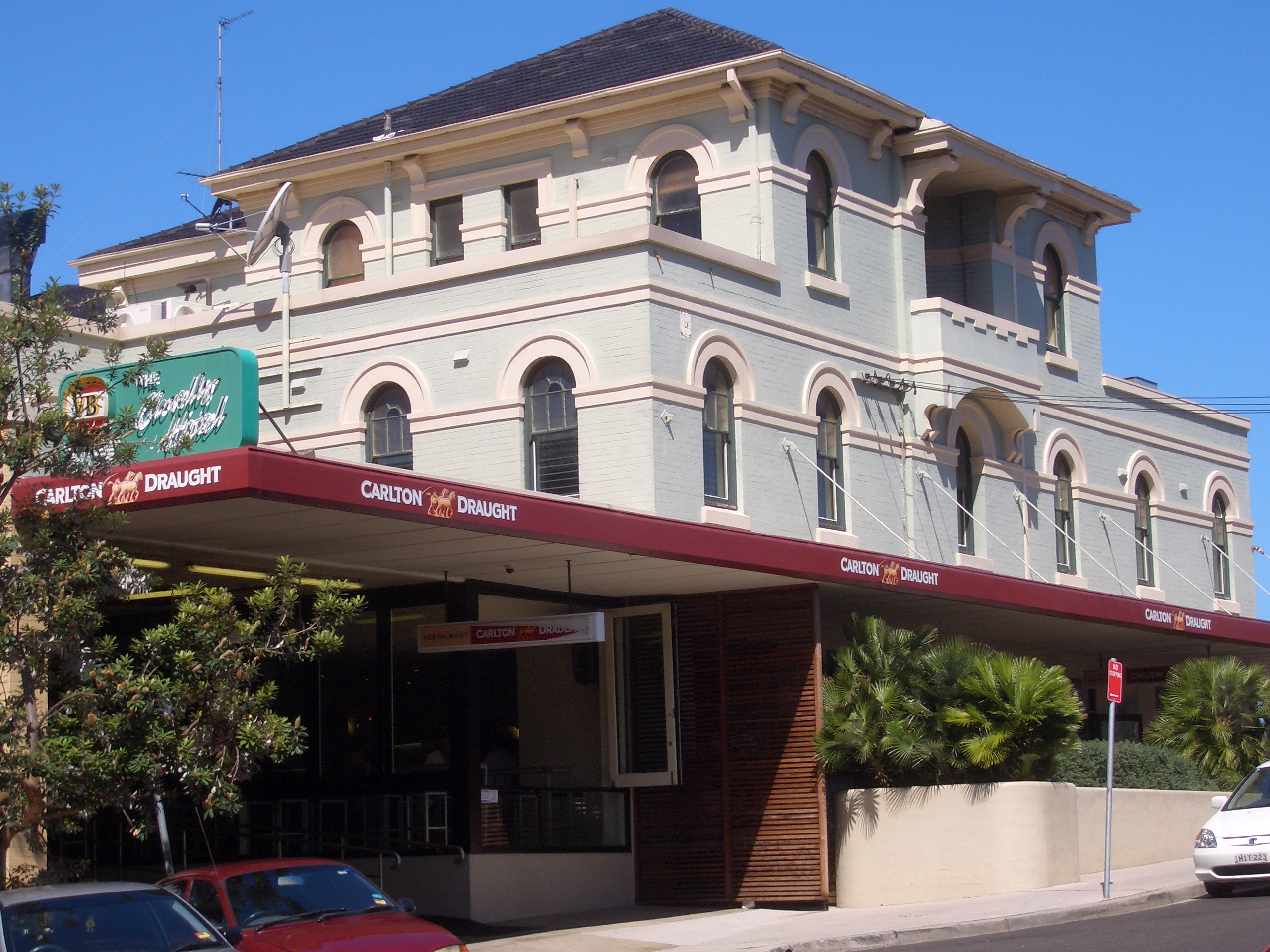 Clovelly Hotel, Clovelly, Sydney